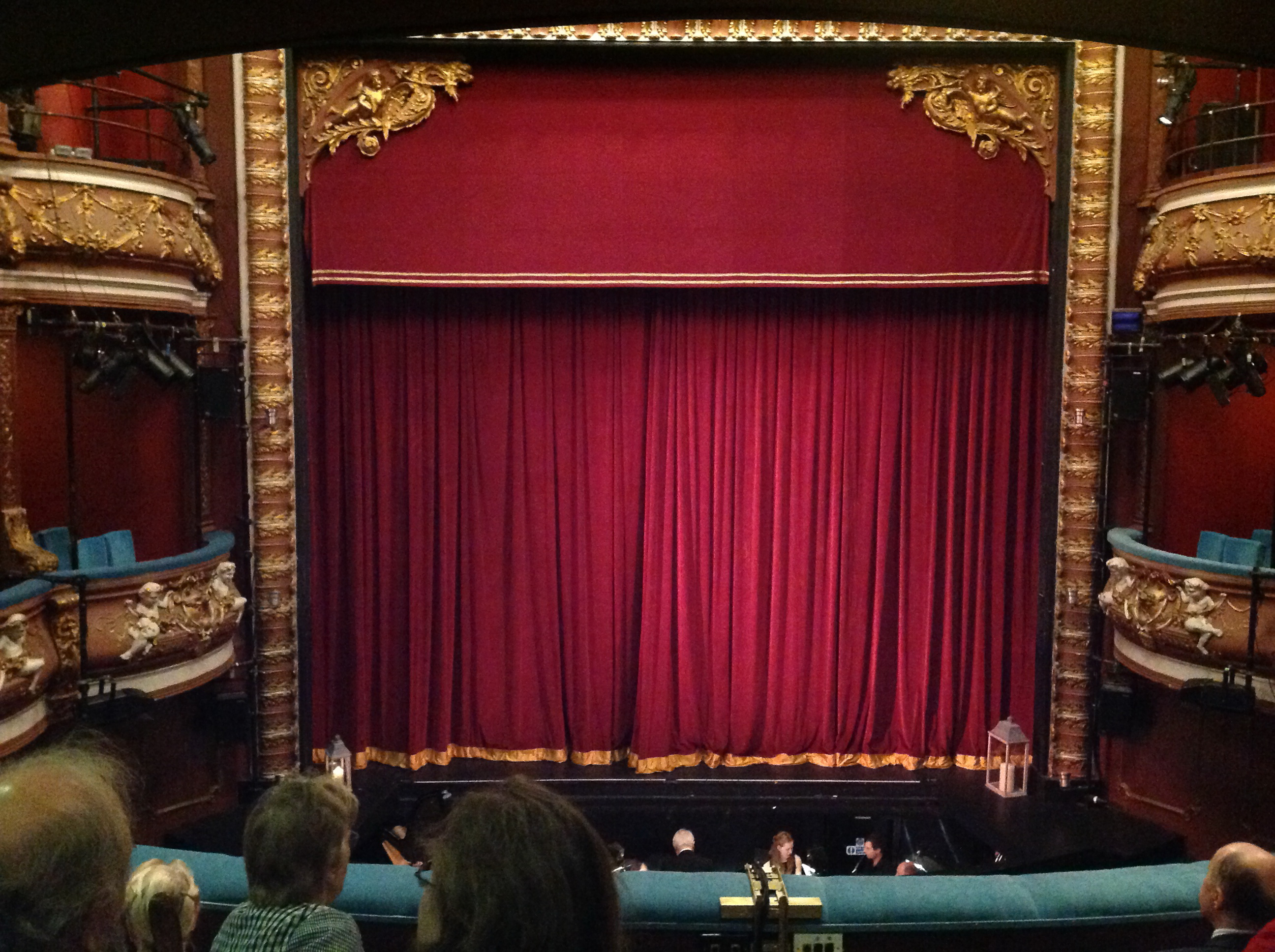 The orchestra pit, curtain and side boxes in Harrogate Theatre in Harrogate, England